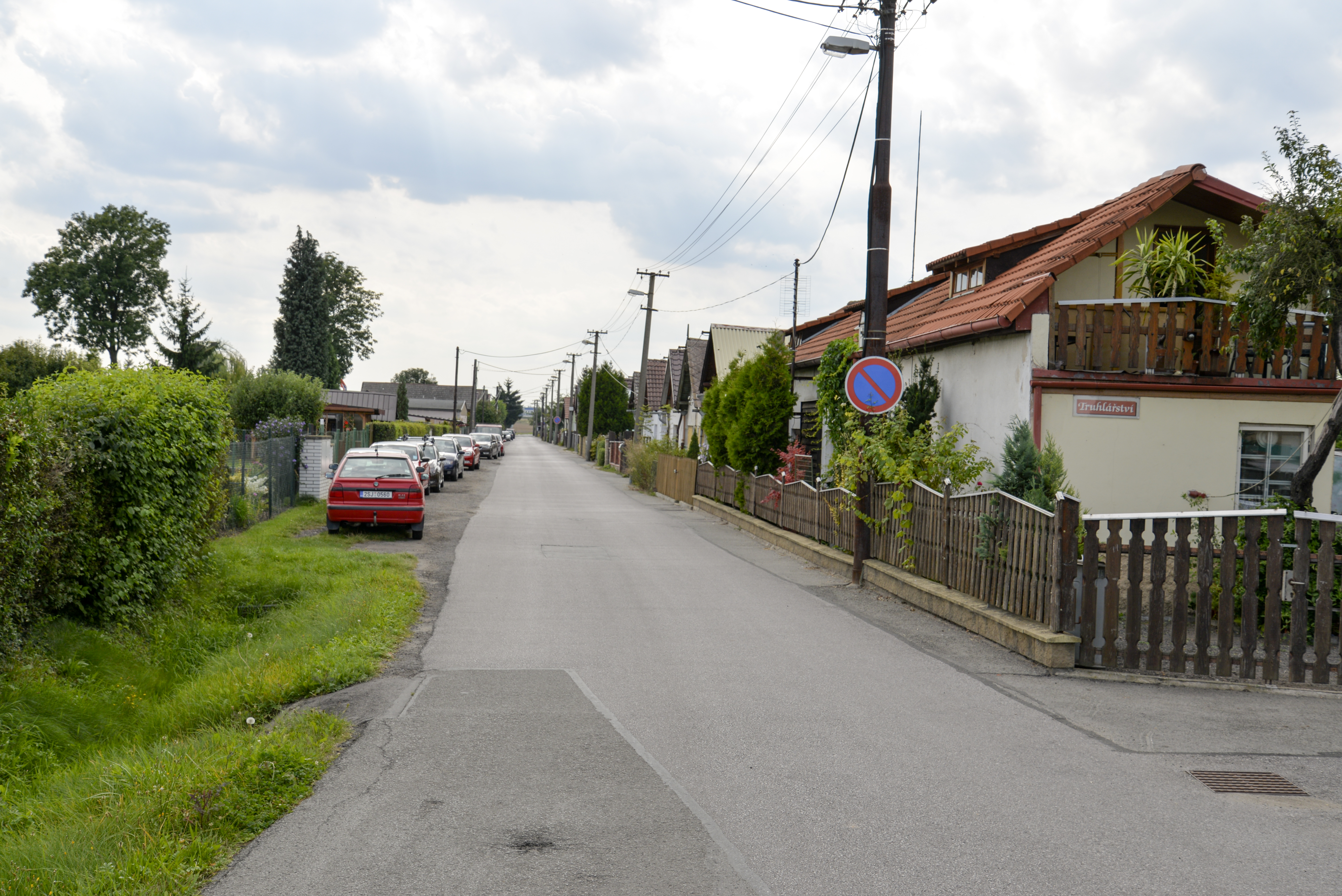 Podchlumí - part of the city Mladá Boleslav in Mladá Boleslav District.